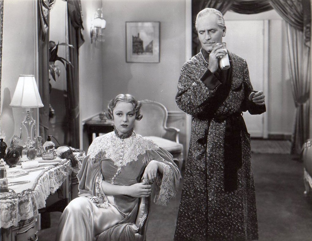 Sally Eilers and Ralph Morgan in Walls of Gold (1933) - publicity still (cropped)